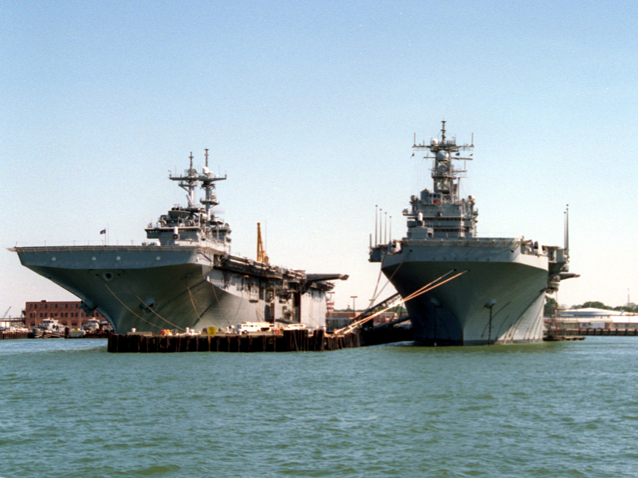 The U.S. Navy amphibious assault ships USS Wasp (LHD-1), left, and USS Saipan (LHA-2) moored at pier No. 8 at the Naval Station Norfolk, Virginia (USA), in 1993. Note the differences in design between the Tarawa-class and the Wasp-class.